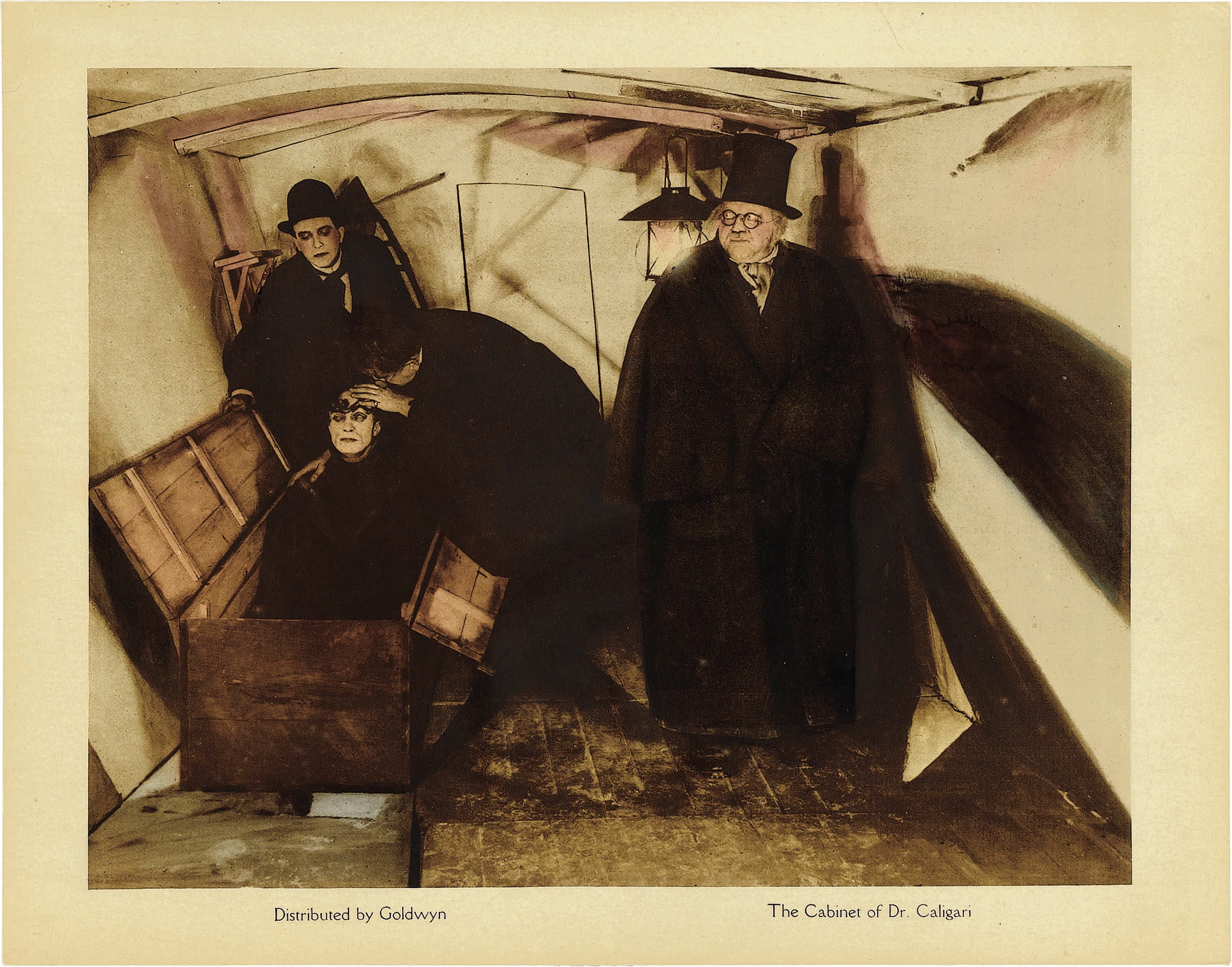 Lobby Card from the 1920 film 'The Cabinet of Dr. Caligari' as doctors examine his somnambulist, Cesare. This is the only card with Caligari and Cesar together.